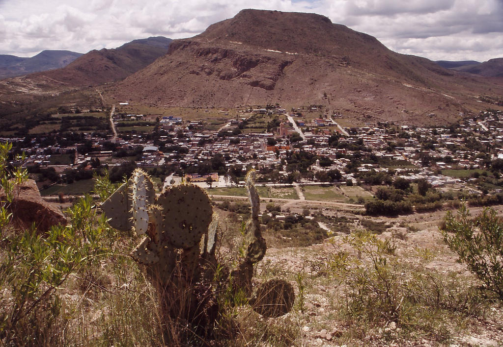 The town of Tierra Blanca in Guanajuato State in Mexico.